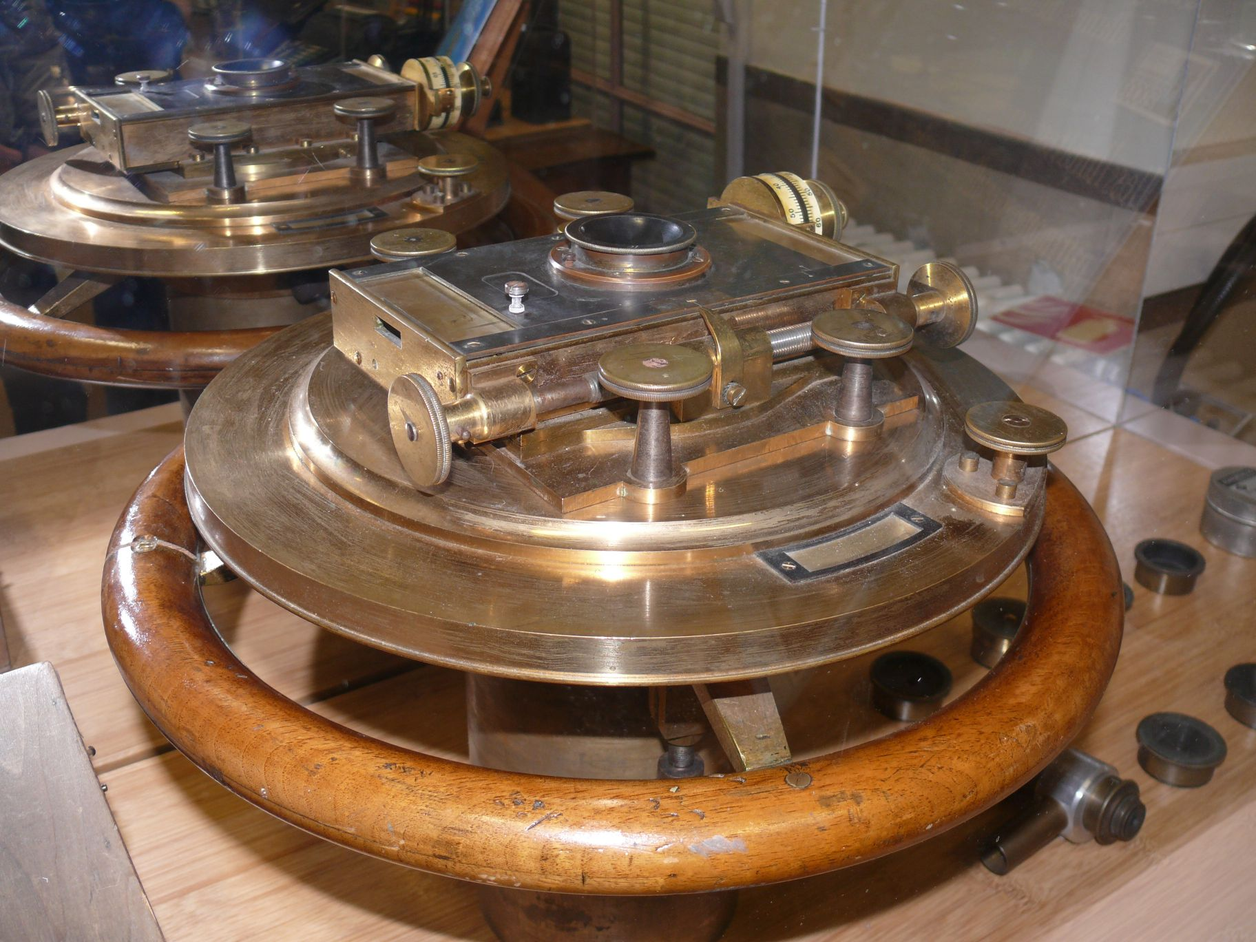 Micrometer of year 1909 at Lille observatory (Nord, France).